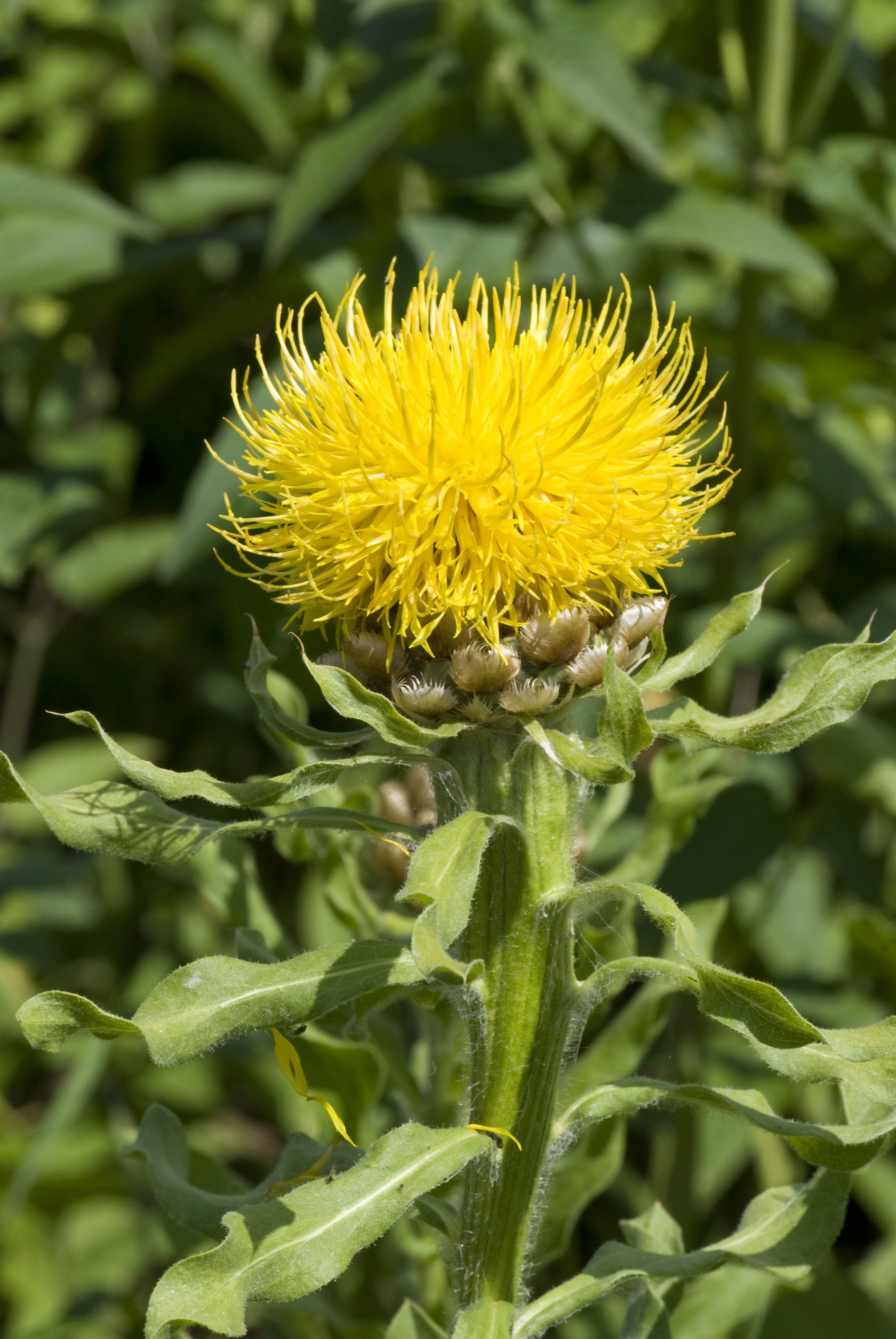 Perennial. You can see the bud case at the bottom of the flower.